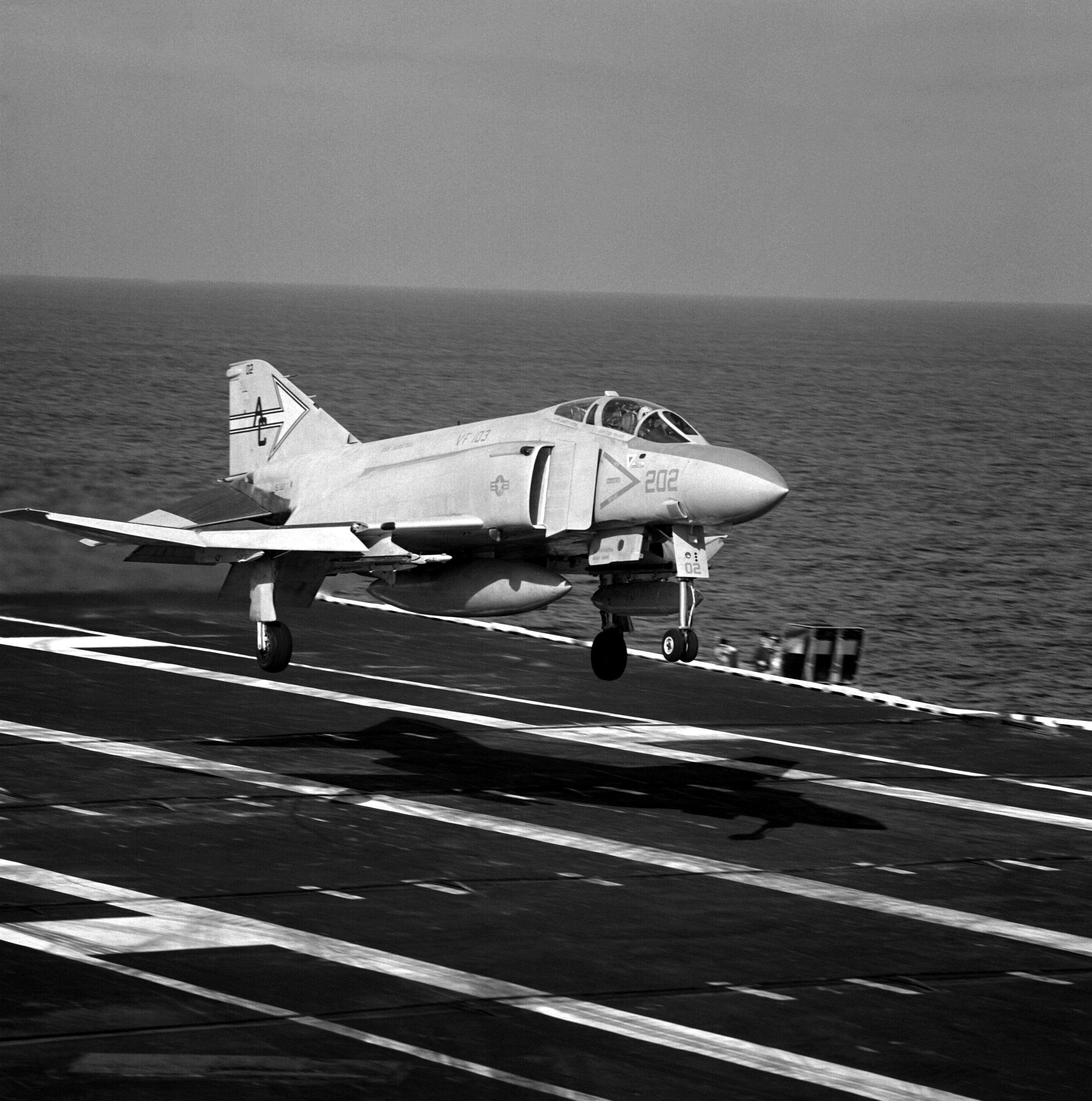 A U.S. Navy McDonnell F-4J Phantom II from Fighter Squadron 103 (VF-103) "Sluggers" landing aboard the aircraft carrier USS Saratoga (CV-60) underway off the coast of Florida (USA). VF-103 was to assigned to Carrier Air Wing 3 (CVW-3) aboard the Saratoga for a deployment to the Mediterranean Sea from 10 March to 27 August 1980.